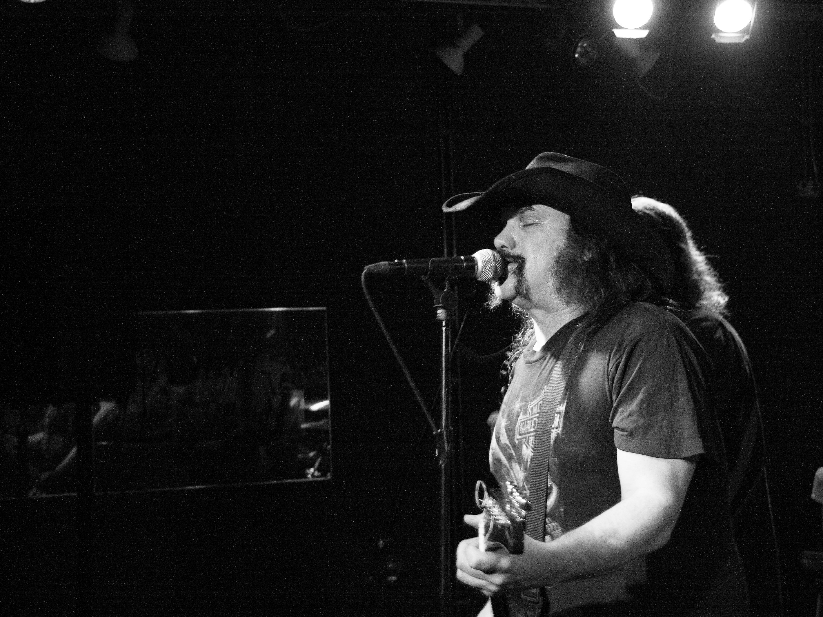 The Kentucky BridgeBurner with Blaine Cartwright, Earl Crim, Rob Hulsman & Todd Gorrell at Club W71, Weikersheim.